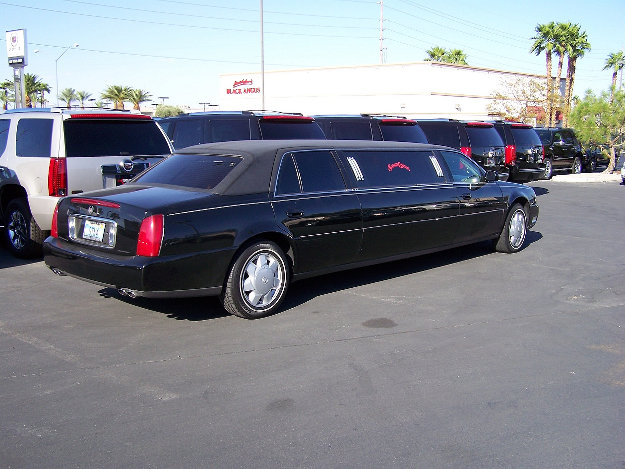 Cadillac DeVille Stretch in Las Vegas